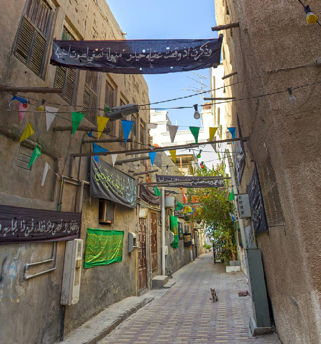 a zarnoq (Alley) in Qatif.